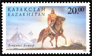 Stamp of Kazakhstan